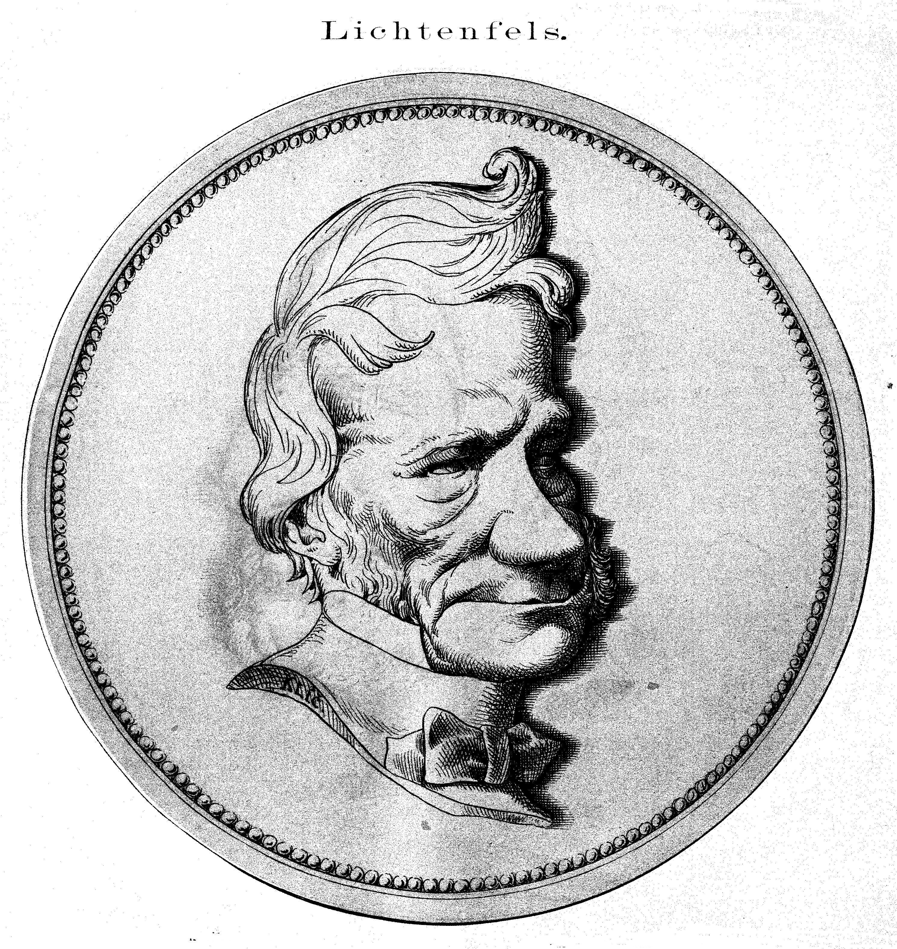 Cartoon of Thaddäus Peithner von Lichtenfels (1798-1877), Austrian lawyer and politician.